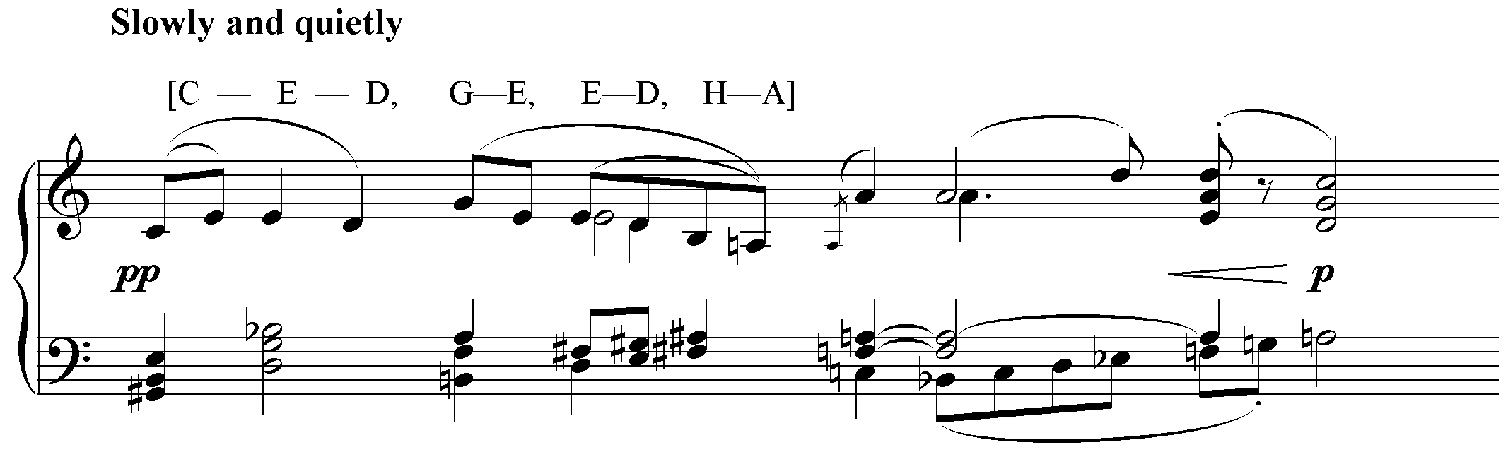 Ives Concord Sonata I - 2nd theme